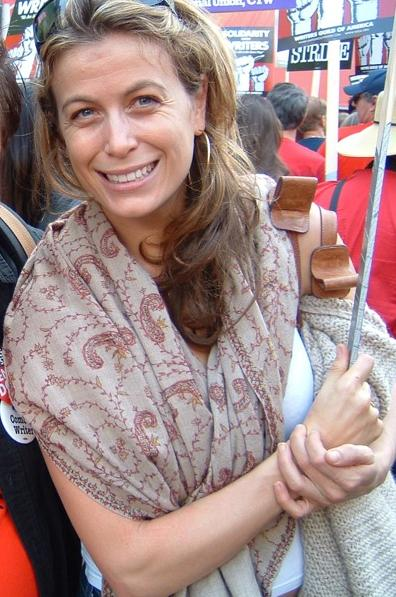 Sonya Walger at Writer's Guild strike rally.